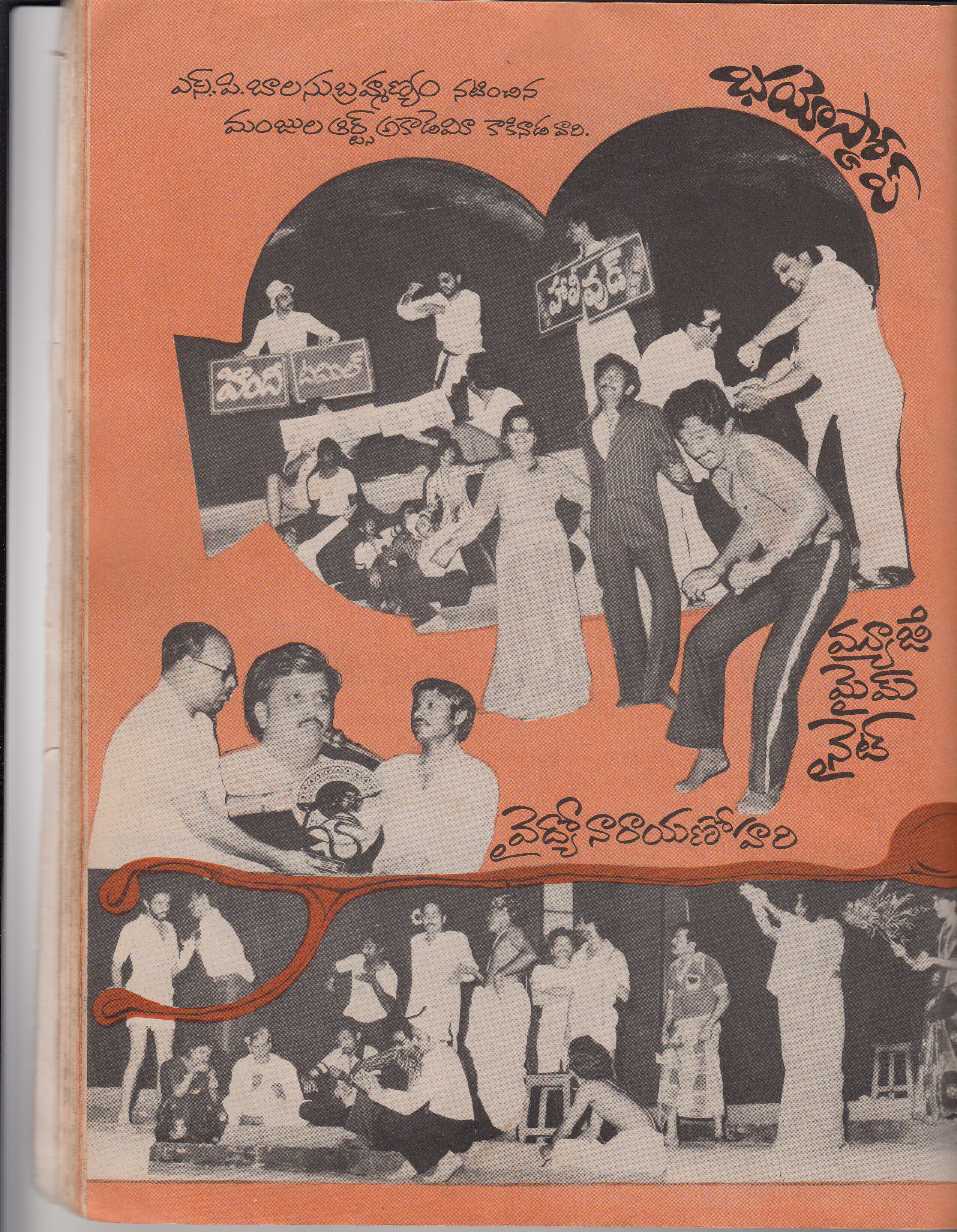 Madras kalaasagarlo sp balabubrahmanyam natimchina bhayascop, vaidyonarayano hari musical mimelo malladi